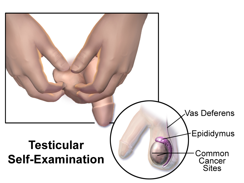 A medical illustration depicting a testicular self examination.